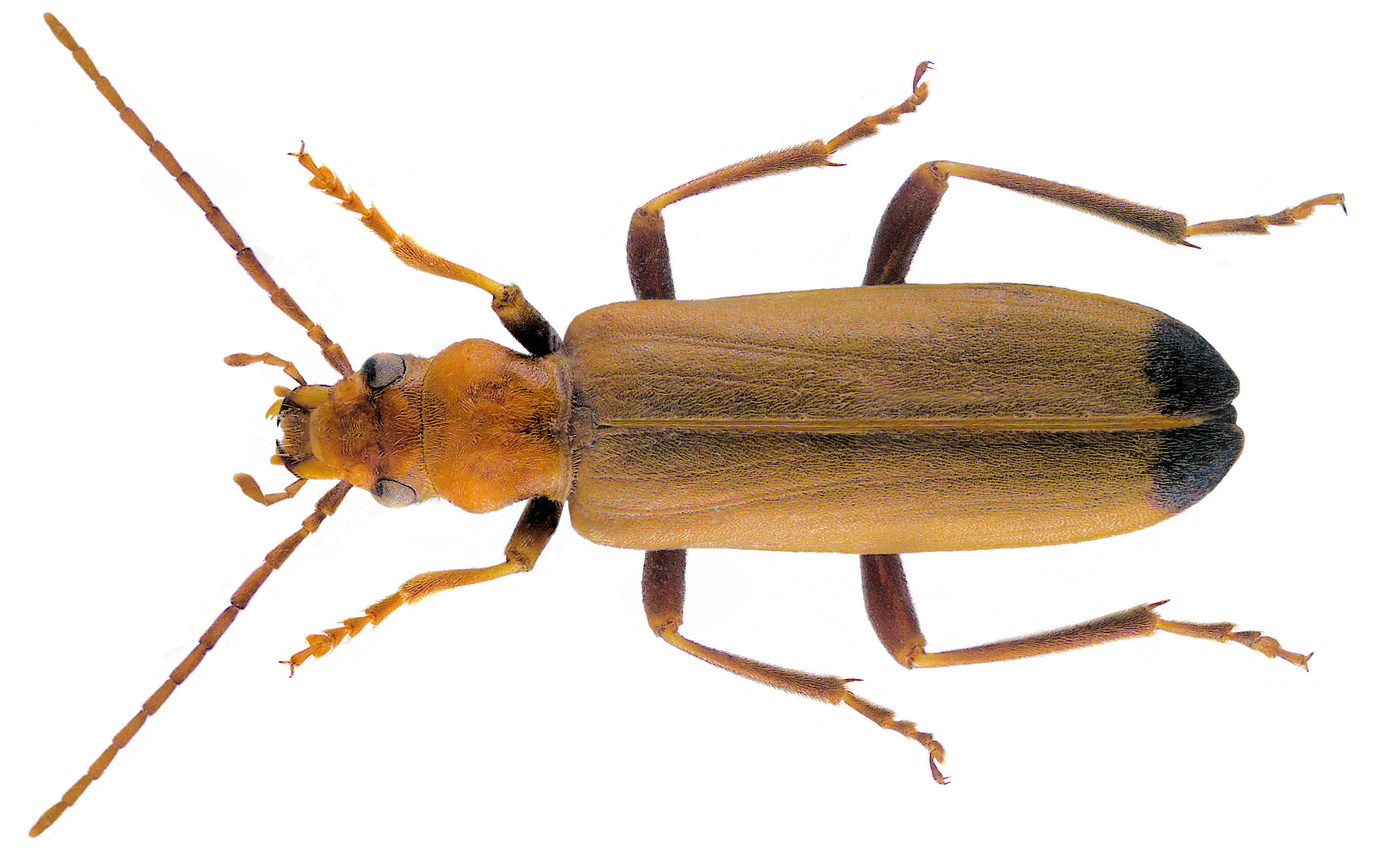 Family: Oedemeridae Size: 15.0 mm (9.0 to 15.0 mm) Origin: Cosmopolitan species Ecology: Development in damp, decaying timber, which has been attacked by fungus Location: Montenegro, Sutomore leg.det. U.Schmidt, 15.VI.1982 Photo: U.Schmidt, 2017